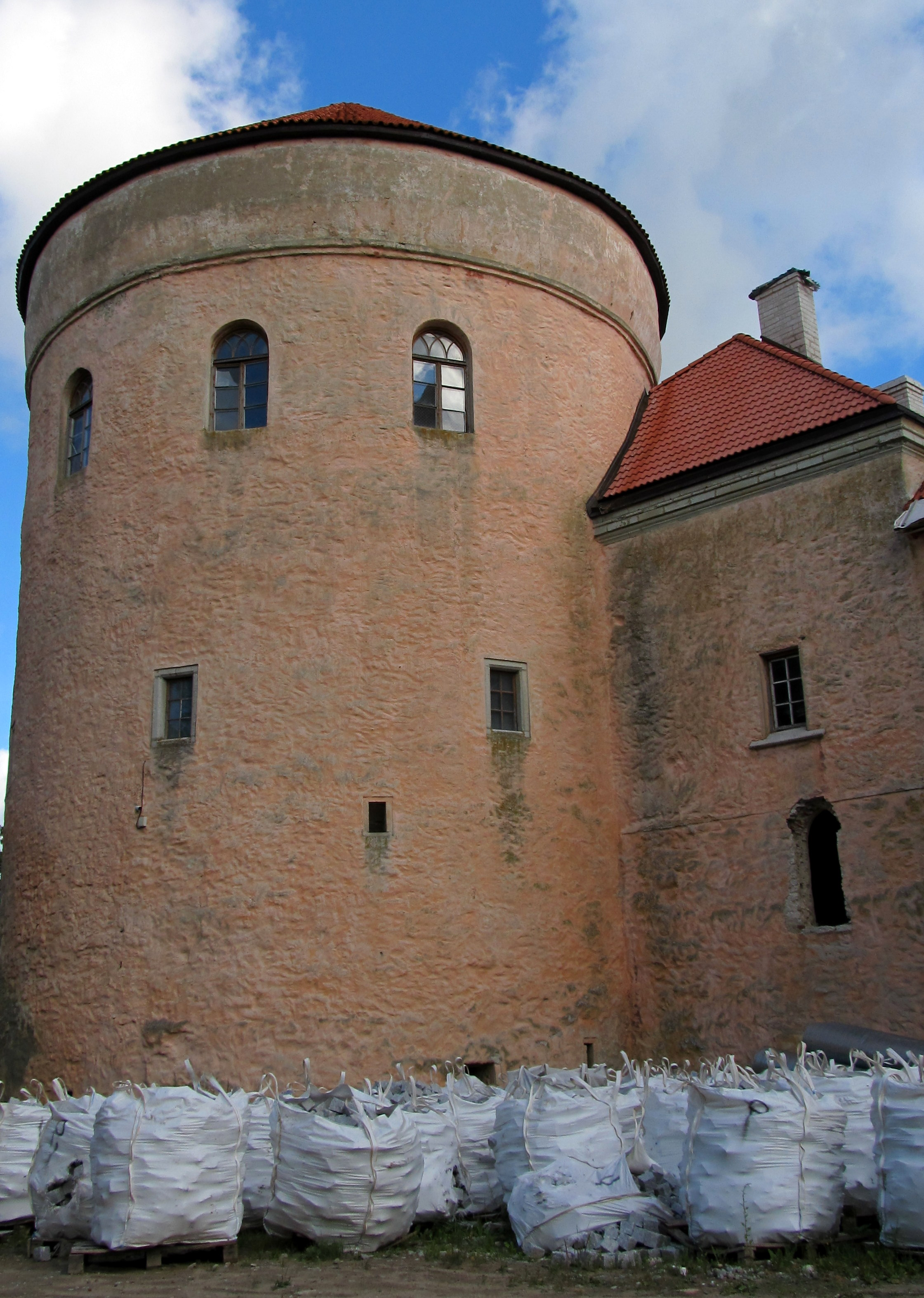 Gunpowder tower of Koluvere castle